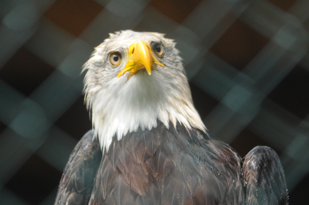 Bald Eagle (Haliaeetus leucocephalus) in Lesny Park Niespodzianek, Ustron, Poland